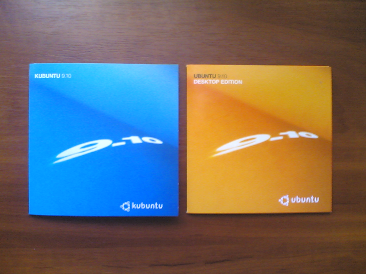 Foto of Ubuntu&Kubuntu_CD version 9.10